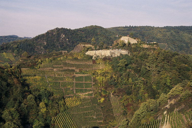 East view of the ruins of Saffenburg Castle in Mayschoß, Germany.